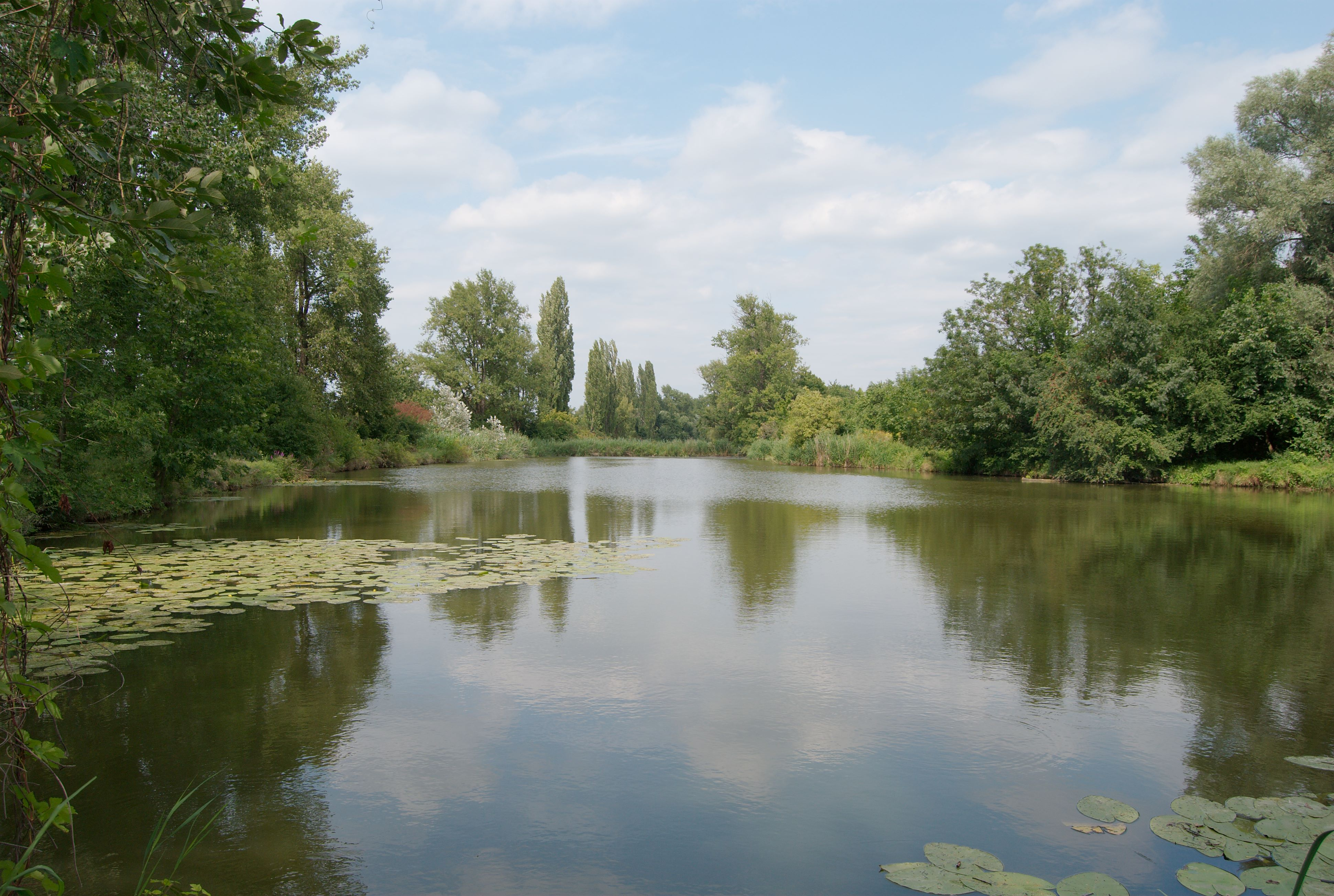 Protect area Holásecká jezera in Brno, Czech republic